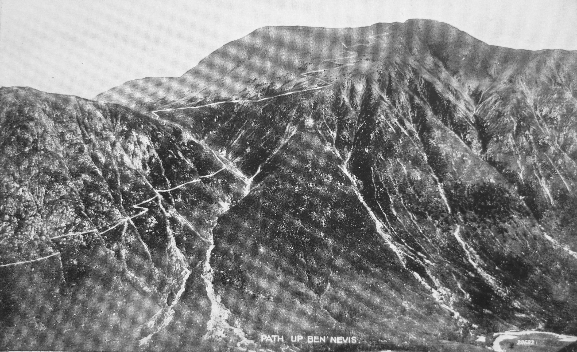 A Valentine's postcard, no date, entitled "Path Up Ben Nevis"